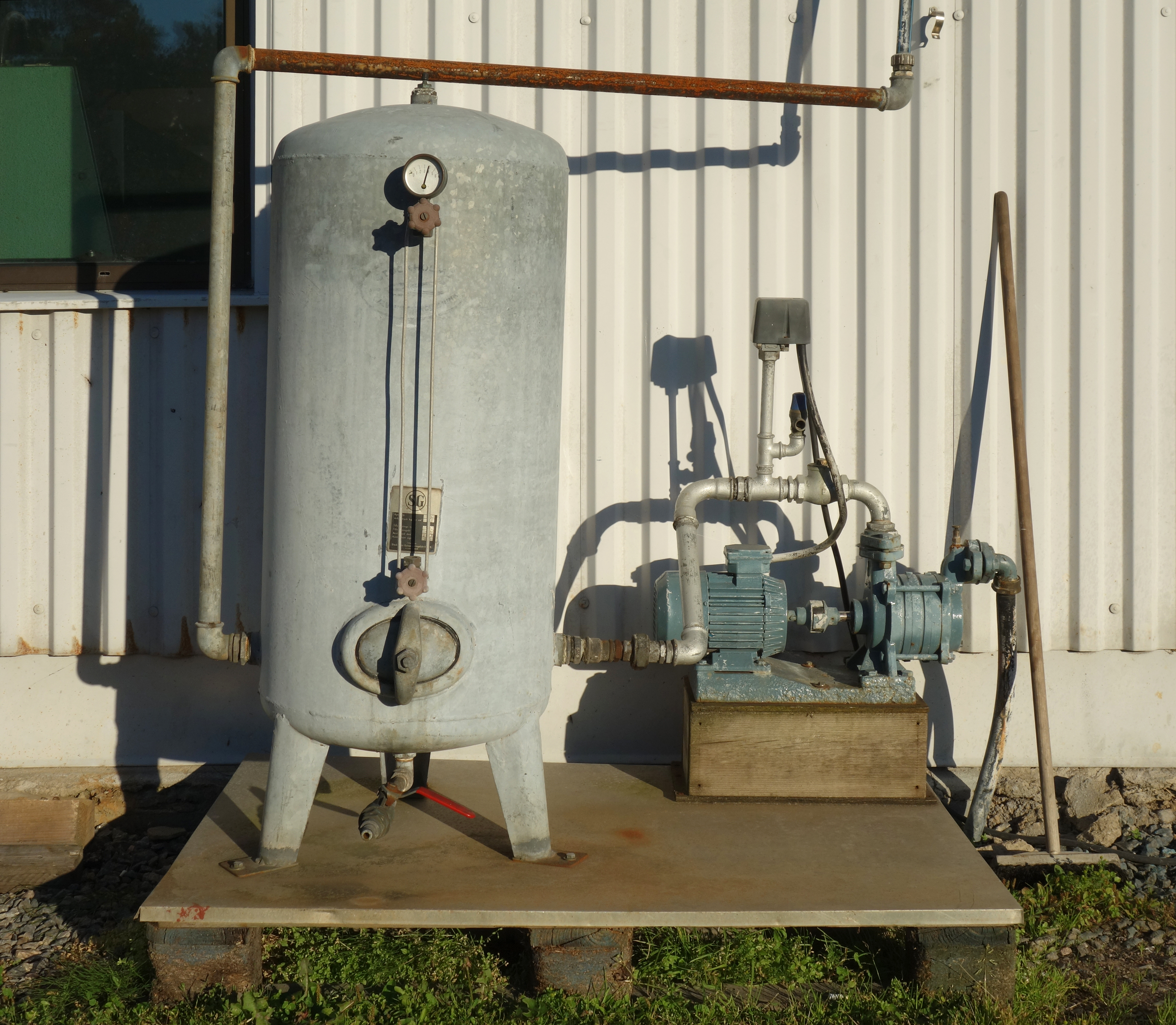 A hydrophore, or pressure tank for water, connected to a pump and a water well, all lit by the setting sun during the Golden Hour. Lysekil, Sweden.